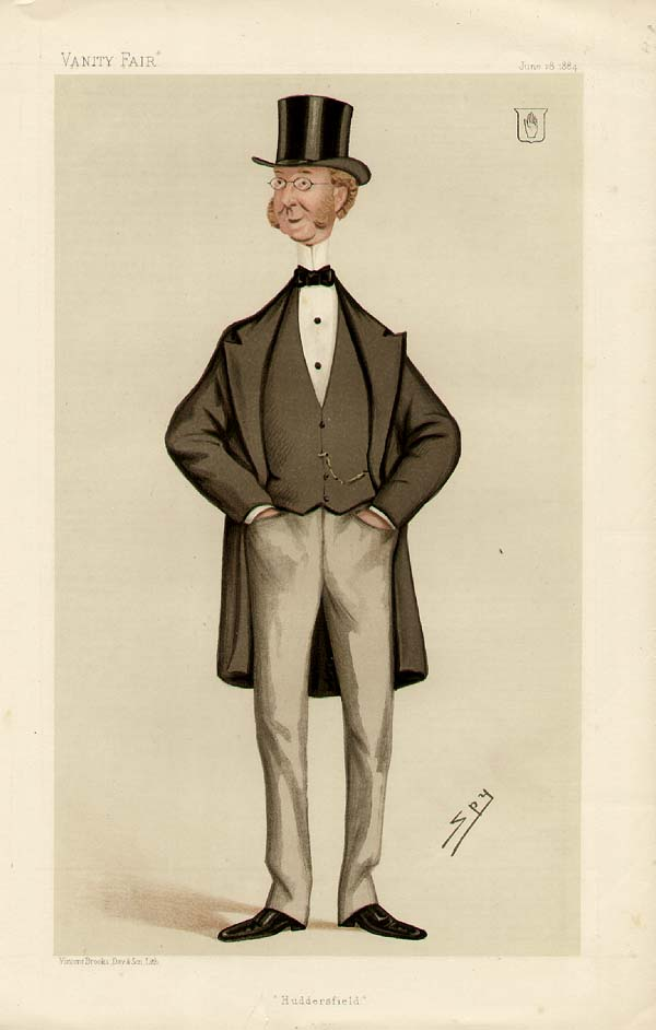 Caricature of Sir John William Ramsden Bt. MP. Caption reads: "Huddersfield".